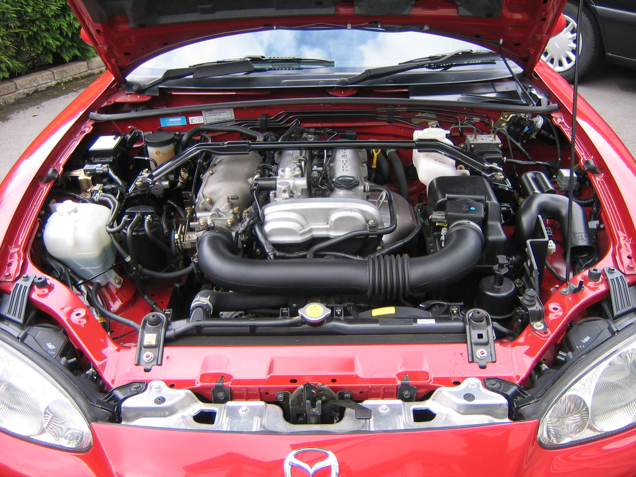 2002 Mazda MX5 NB Mk2 Sport1,840cc 4-cylinder DOHC engine